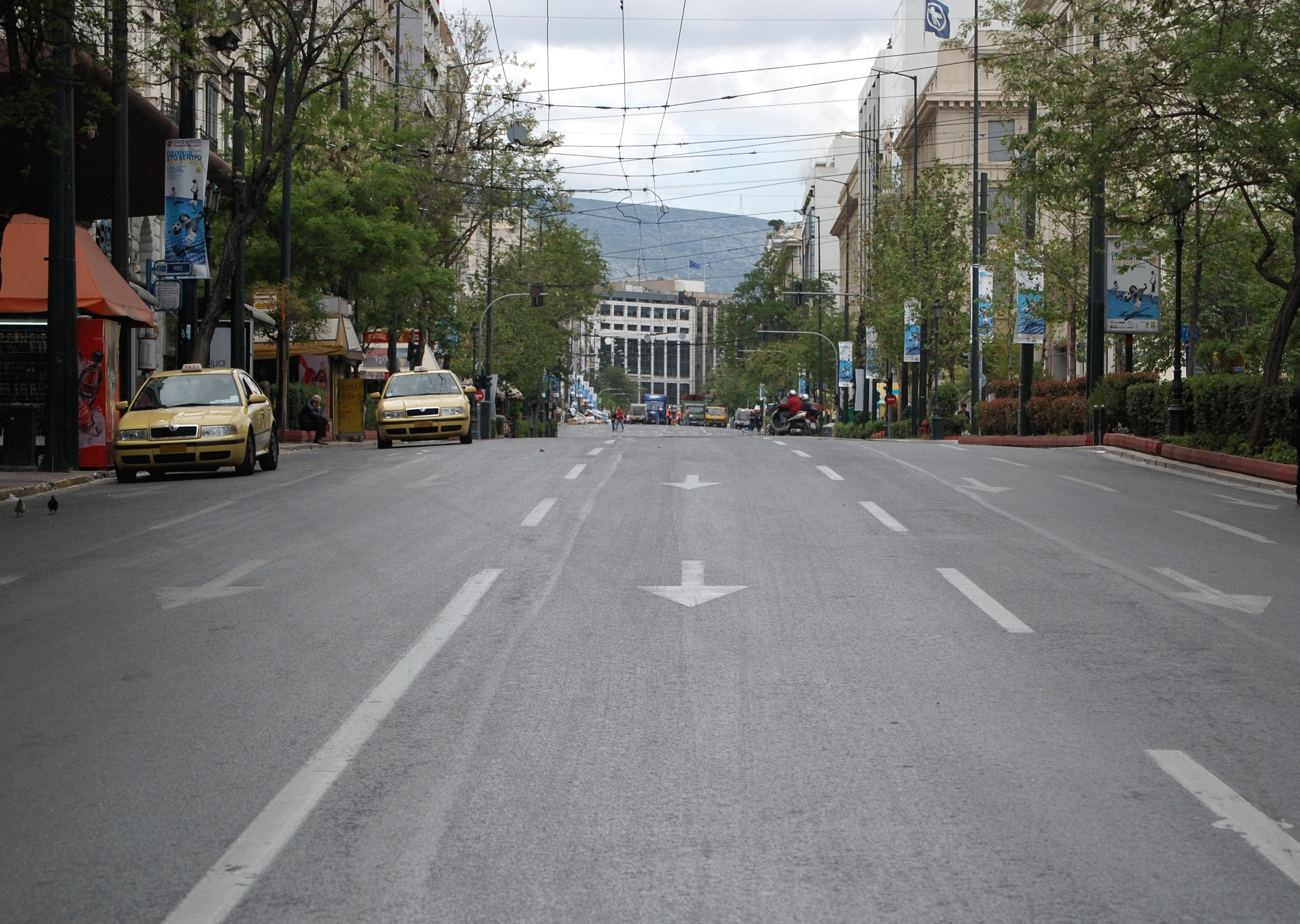 Panepistimiou avenue, whose formal name is Eleftheriou Venizelou avenue, in downtown Athens, Greece. View looking east.